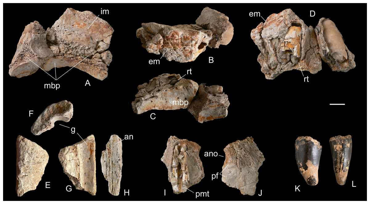 Selected cranial fragments and an isolated tooth referred to Razanandrongobe sakalavae. Right maxillary fragment (MHNT.PAL.2012.6.3) in medial (A), dorsal (B), ventral (C), and lateral (D) views; ?left maxillary fragment (MHNT.PAL.2012.6.5) in dorsal (E), caudal (F), ventral (G), and medial (H) views; left premaxillary fragment (MHNT.PAL.2012.6.4) in medial (I) and lateral (J) views; very large isolated tooth (MSNM V7144) in lateral (K) and rostral (L) views. Scale bar = 2 cm. Abbreviations: see text.